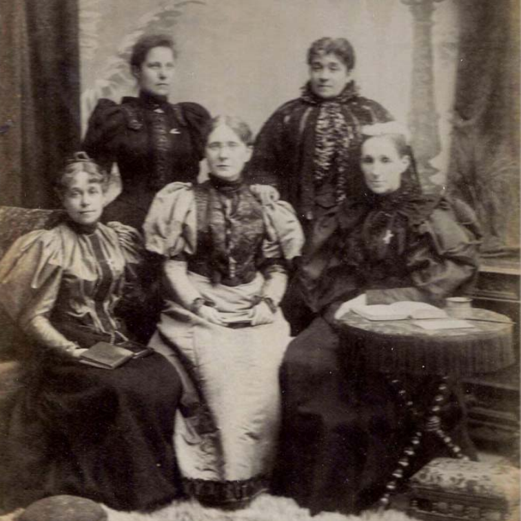 Mrs Frances Willard centre in London, Mrs Gordon top left, Agnes E Slack bottom left in 1895